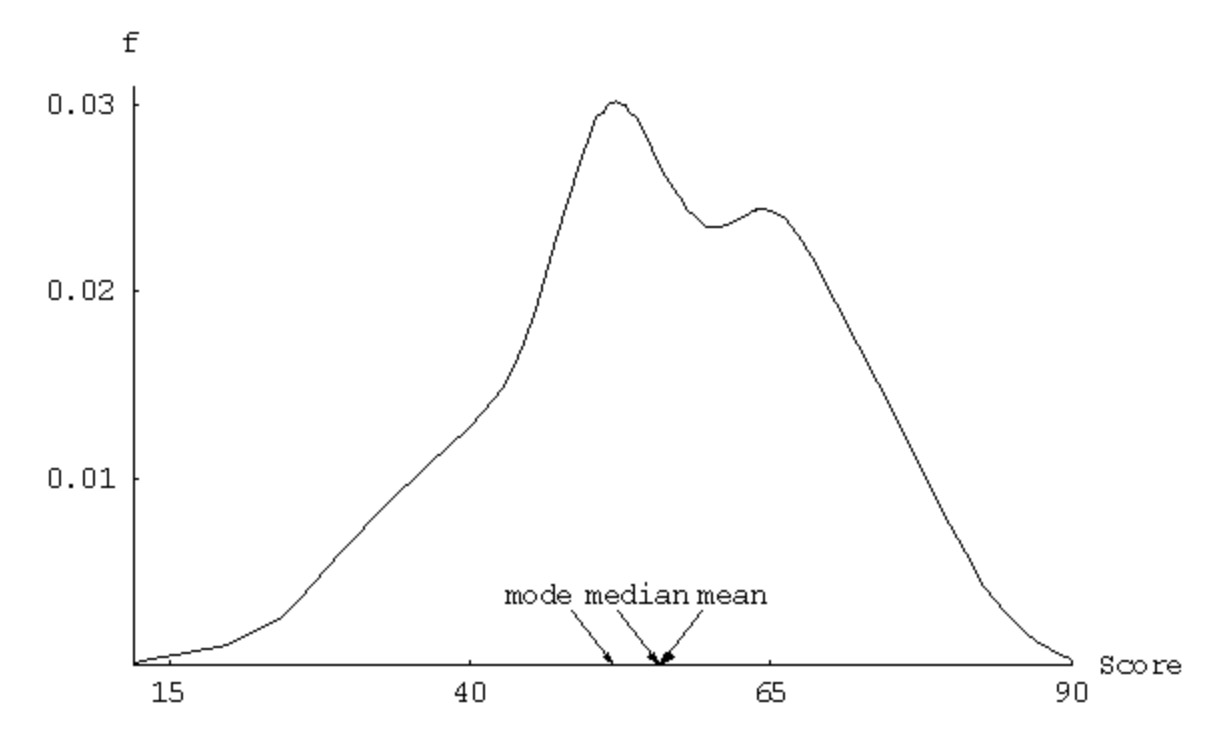 Multimodal distribution with mean equal to median